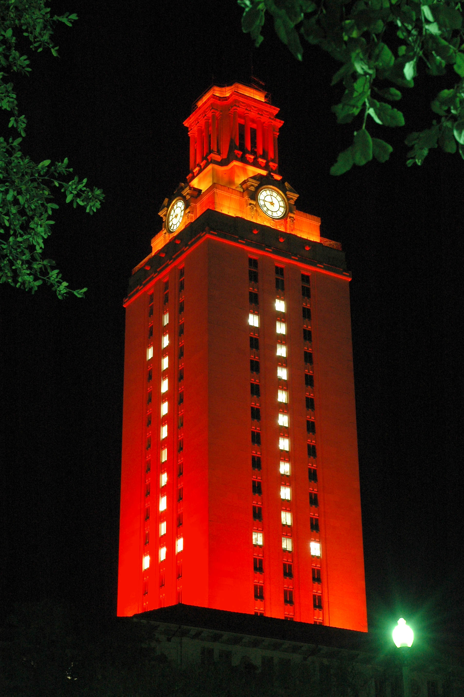 Source= License declaration by author at (Creative Commons Attribution License v. 2.0) Author= Flickr member BlazerMan